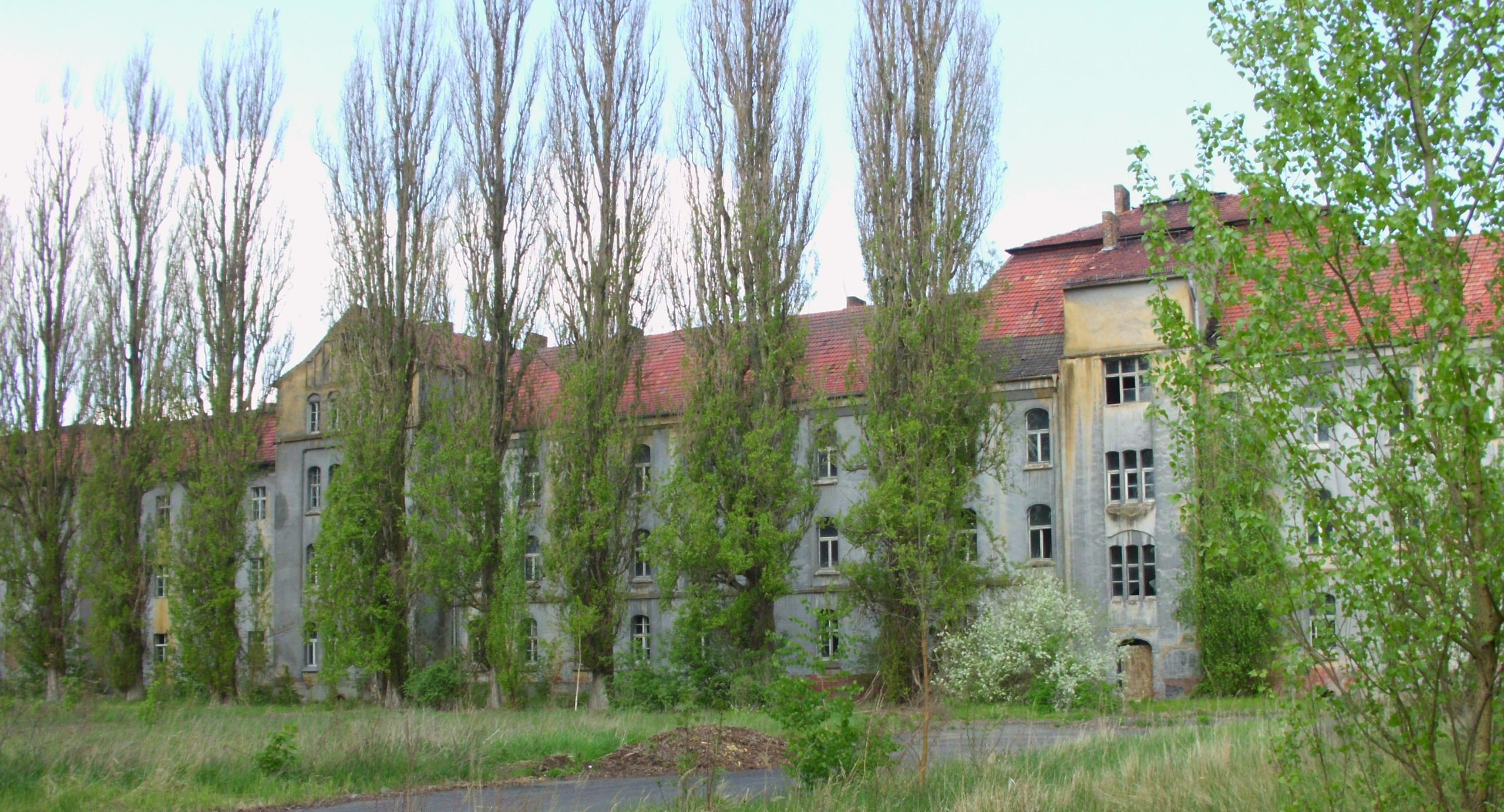 Küstrin-Kietz Oderinsel barracks, main barracks parade ground side